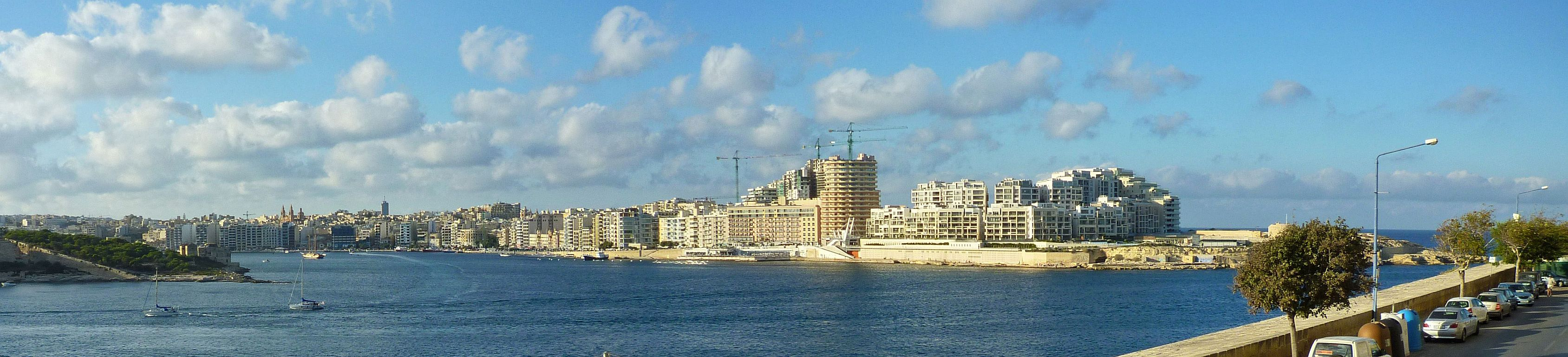 The panorama of Sliema, seen from Valletta, Malta